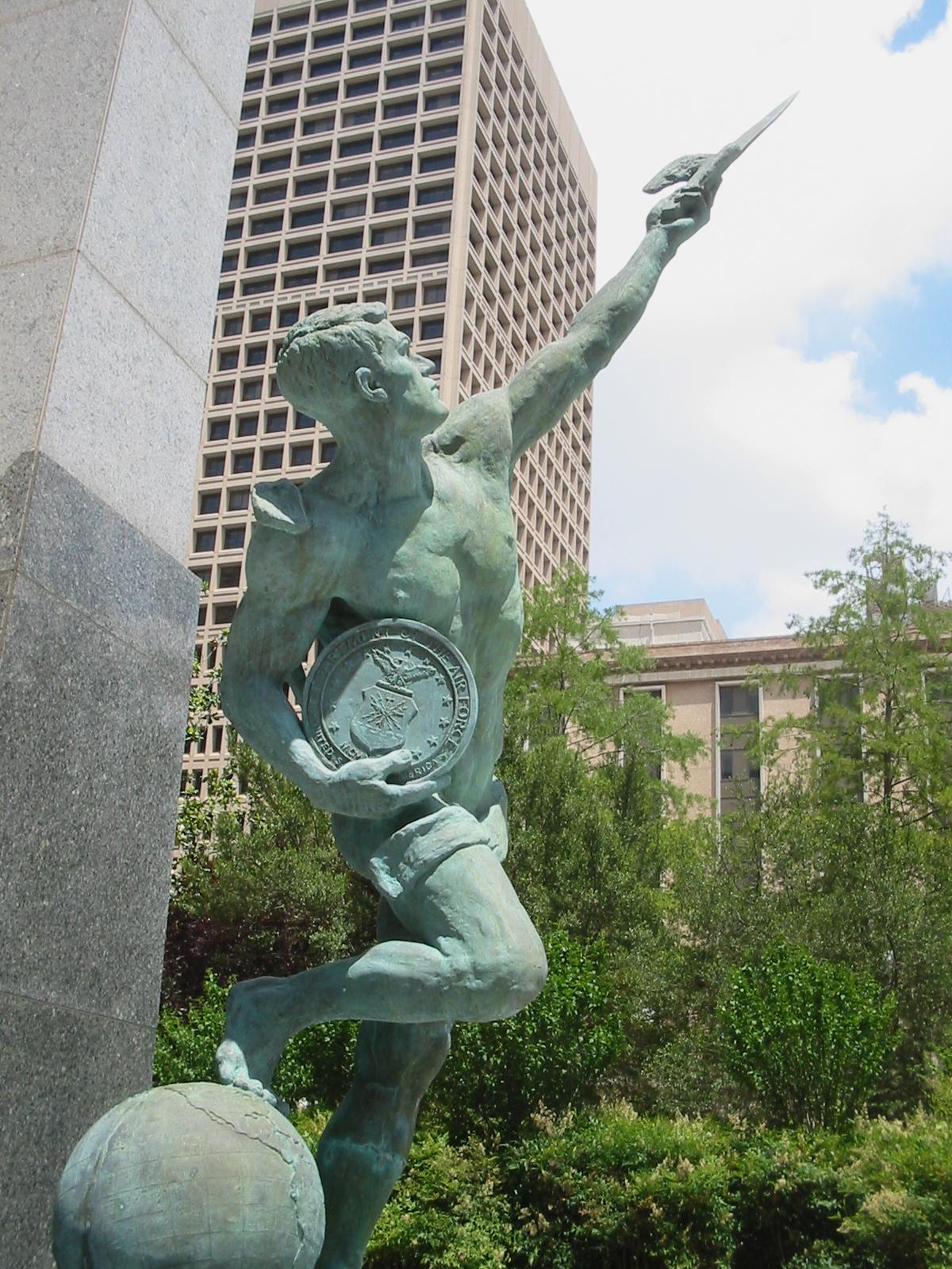 A statue off of Couch Drive in downtown Oklahoma City.